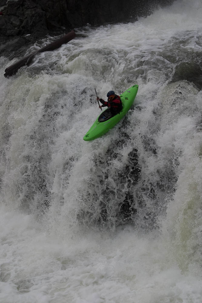 Ryan Bayes running the Ash River (probably in British Columbia, Canada), or As River in South Africa?